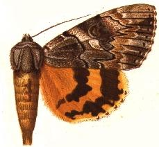 PLATE CXCIV.